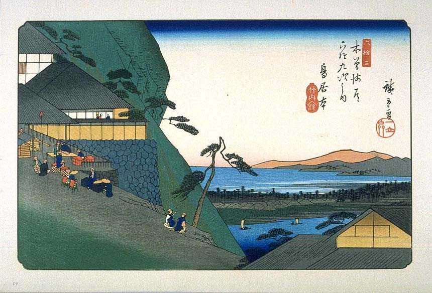 Toriimoto on the Kisokaido, ukiyo-e prints by Hiroshige